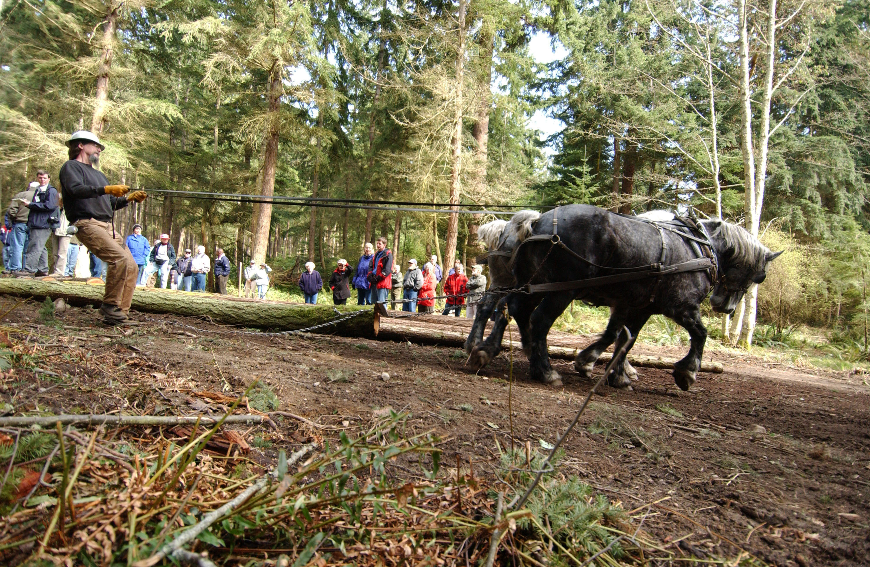 Port Hadlock, Wash. (March 29, 2006) - Logger Jerry Harpole demonstrates his horse driving technique for the Bremerton Olympic Peninsula Navy League members aboard Naval Magazine Indian Island, Port Hadlock, Wash. Horse logging on U. S. Navy installations first started on Indian Island base in the early 1970's, a direct result of the Navy's Forestry Program's commitment to environmental excellence. U.S. Navy photo by Senior Chief Photographer's Mate Jerry McLain (RELEASED)